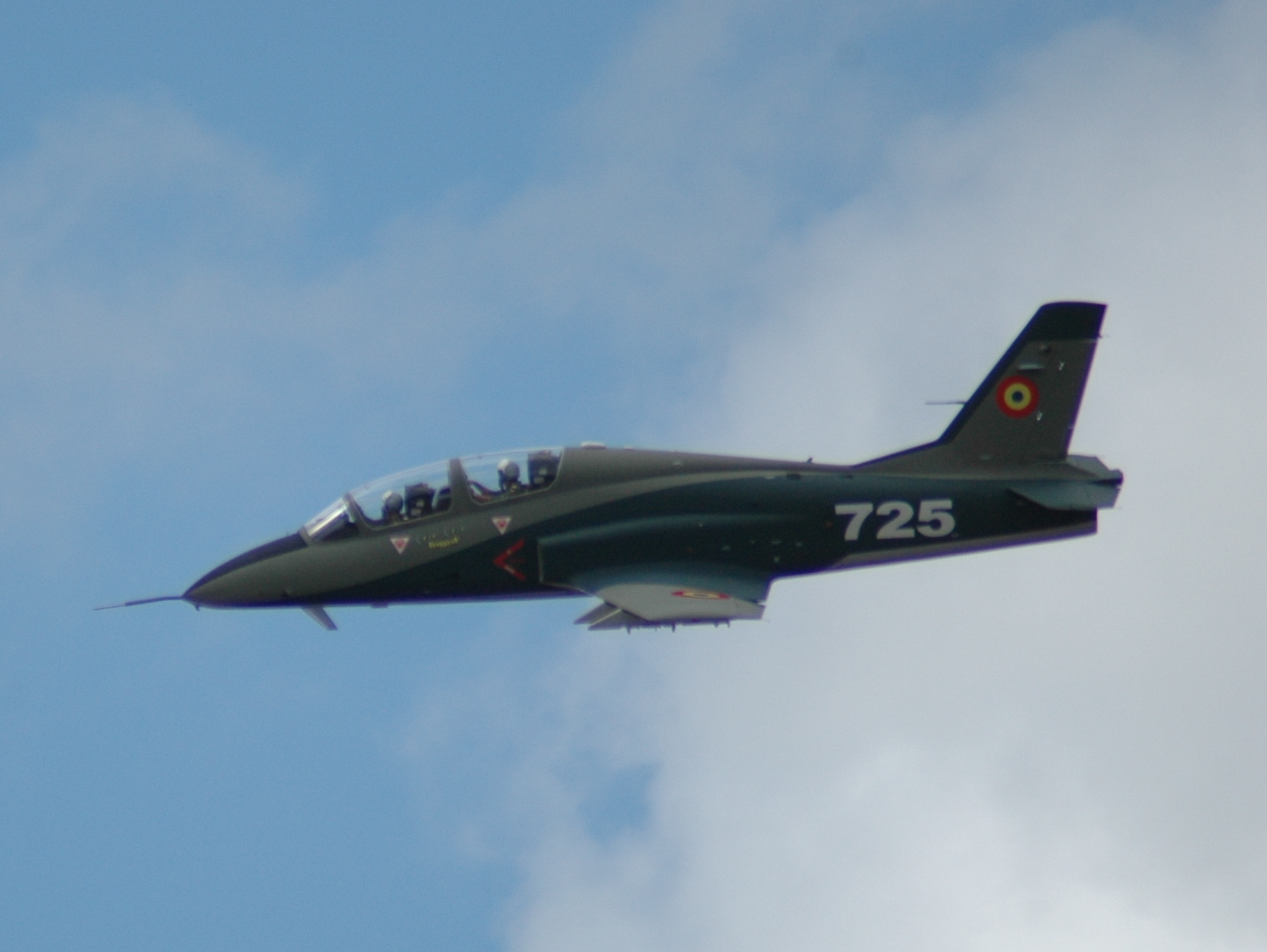 Aerobatic display at the Belgian Defence Days 2008 - Florennes Air Base, Belgium (EBFN)